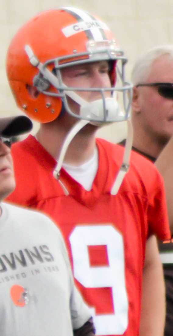 Johnny Manziel (#2) Connor Shaw (#9) and Brian Hoyer (#6) at 2014 Cleveland Browns training camp